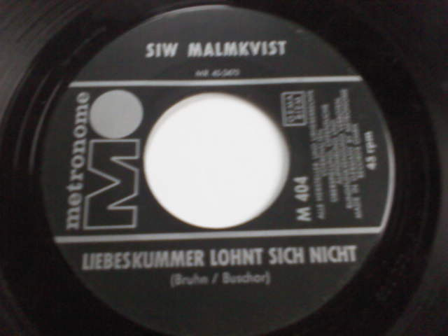 Cover from the Single Liebeskummer (1964) from Siw Malmquist